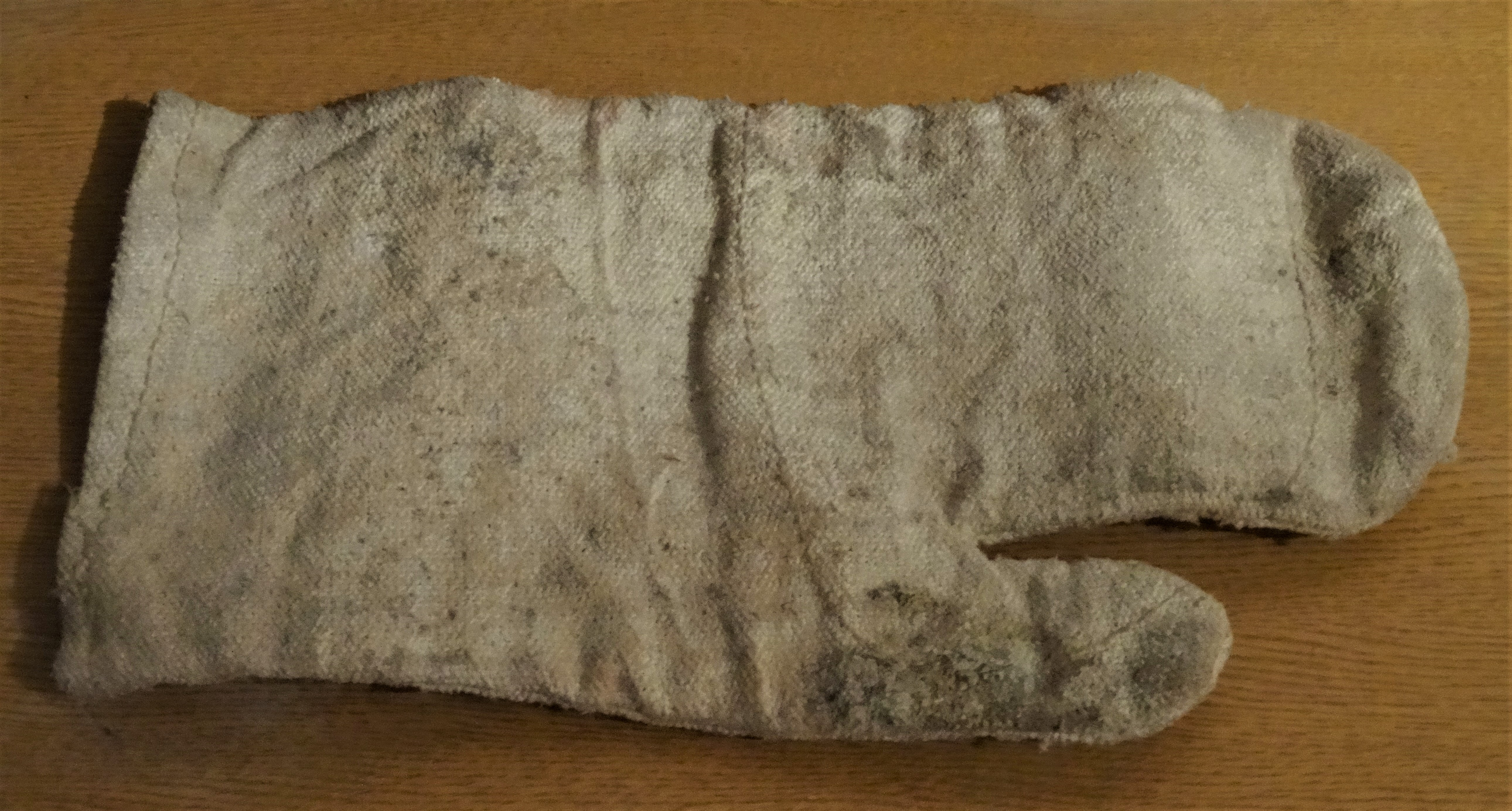 Heat-resistant asbestos glove